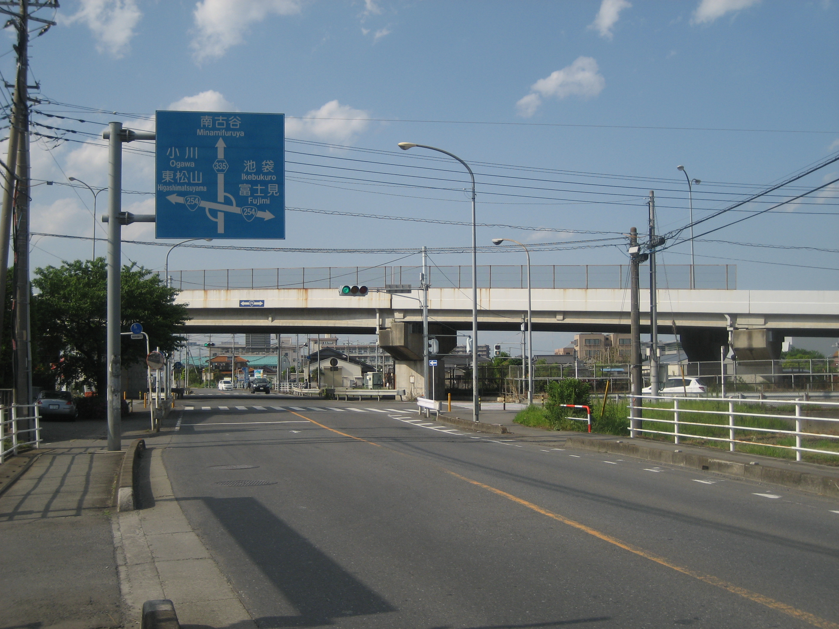 The Saitama Prefectural Road Route 335 at the Kinome Intersection in Kawagoe City